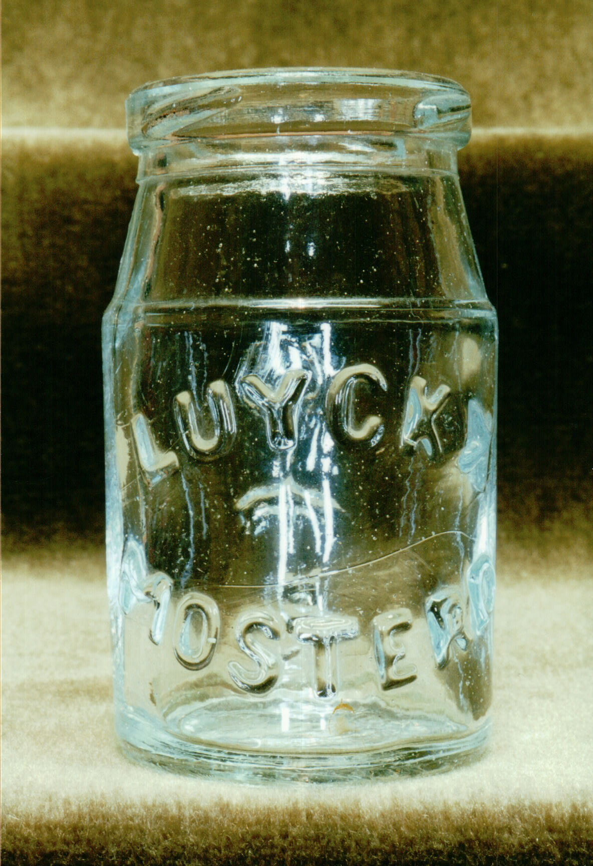 old mustardjar luyckx or luycks from amsterdam 1925 30